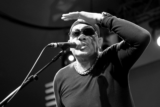 Roy Ayers @ Beck's Music Box (12/2/2011)